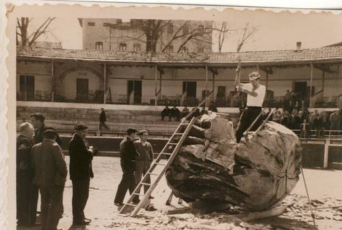 Aizkolaria in Azpeitia